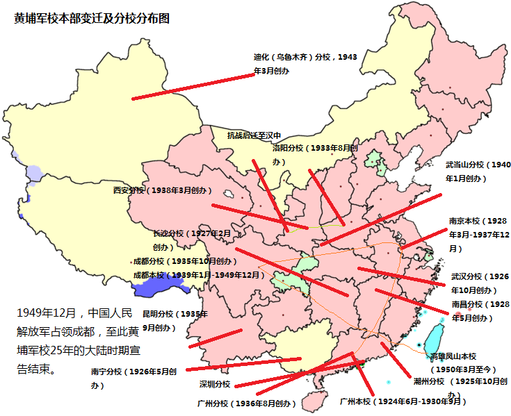 The distribution map of Whampoa Military Academy.